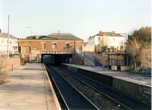 Moses Gate railway station Original description: Moses Gate station 1989